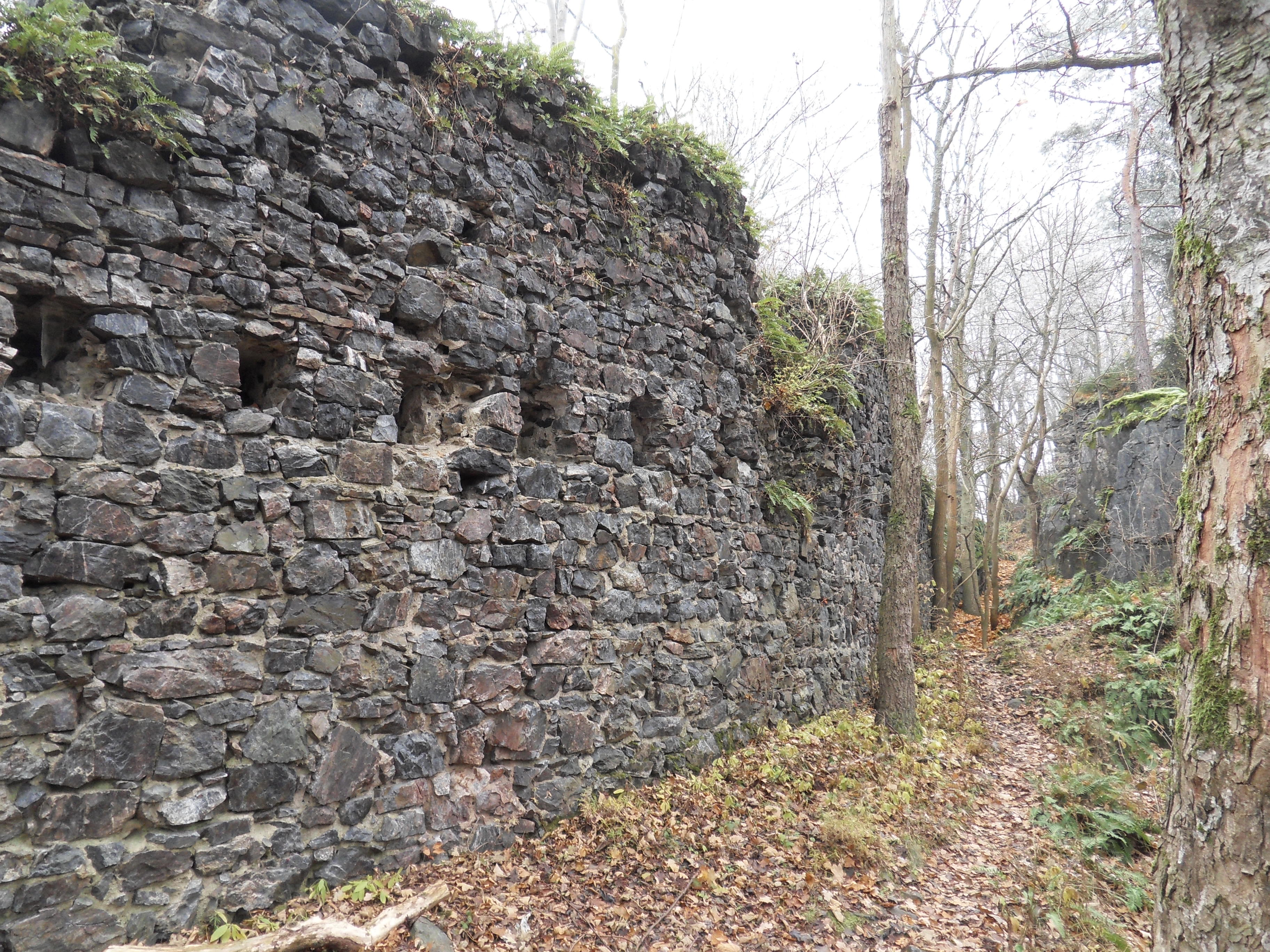 Castle Skála (Ruin of castle in Plzeň-South District). An inside view of the northern part of the castle.